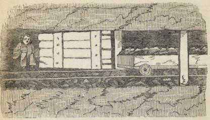 A child sitting by a shutter in a coal mine tunnel with a passing corf in view